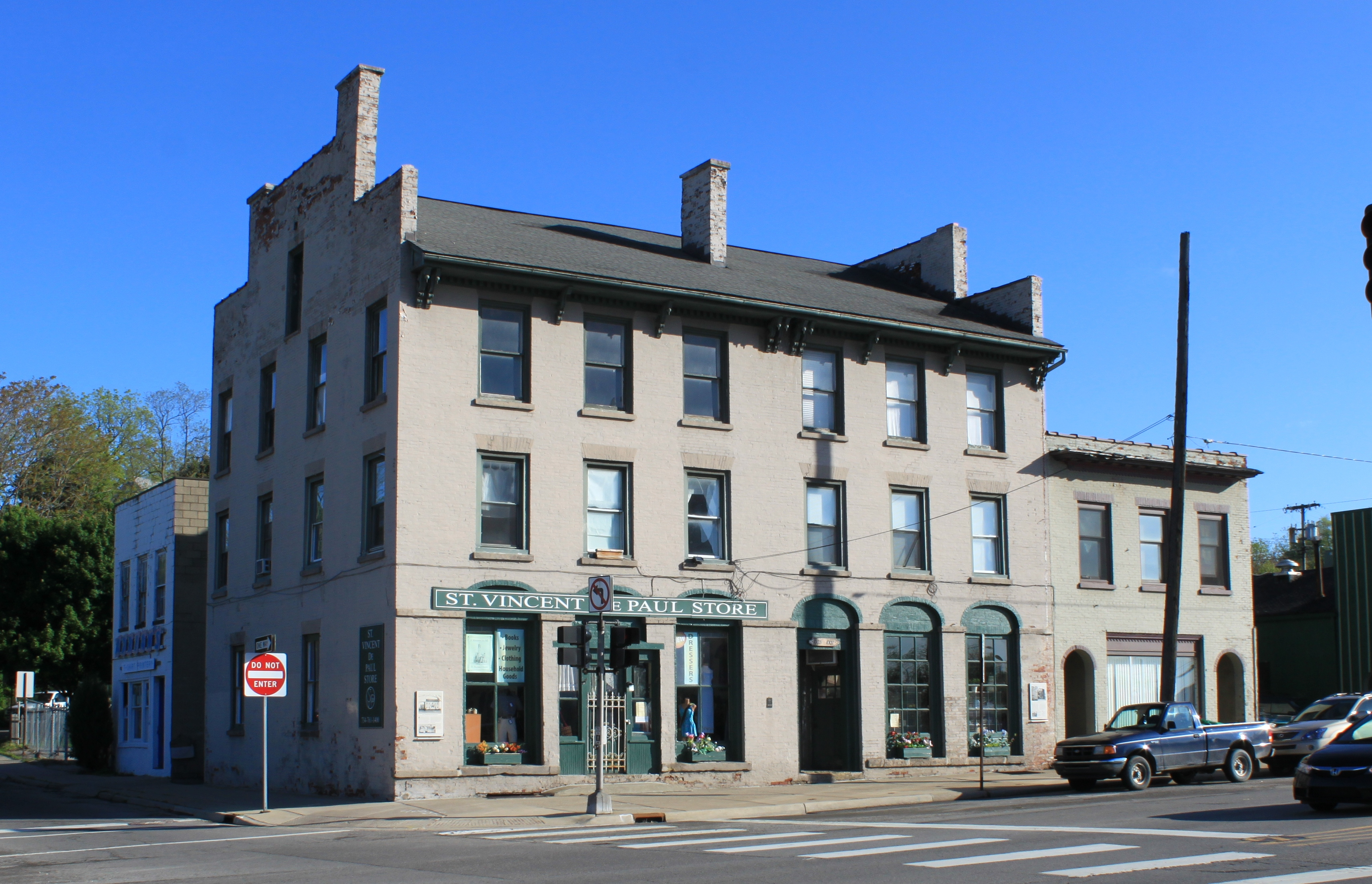 Anson Brown Building, 1001 Broadway St., Ann Arbor, Michigan 48105